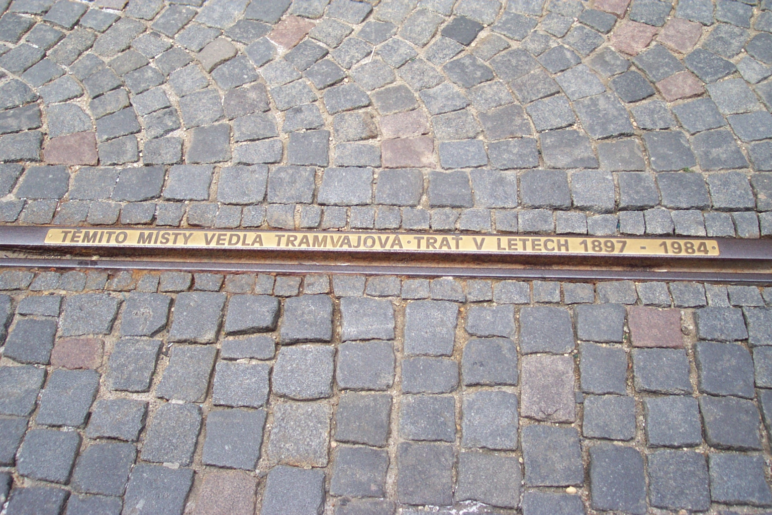 The memorial to former tram track in Pražská street, Liberec, Czech Republic.